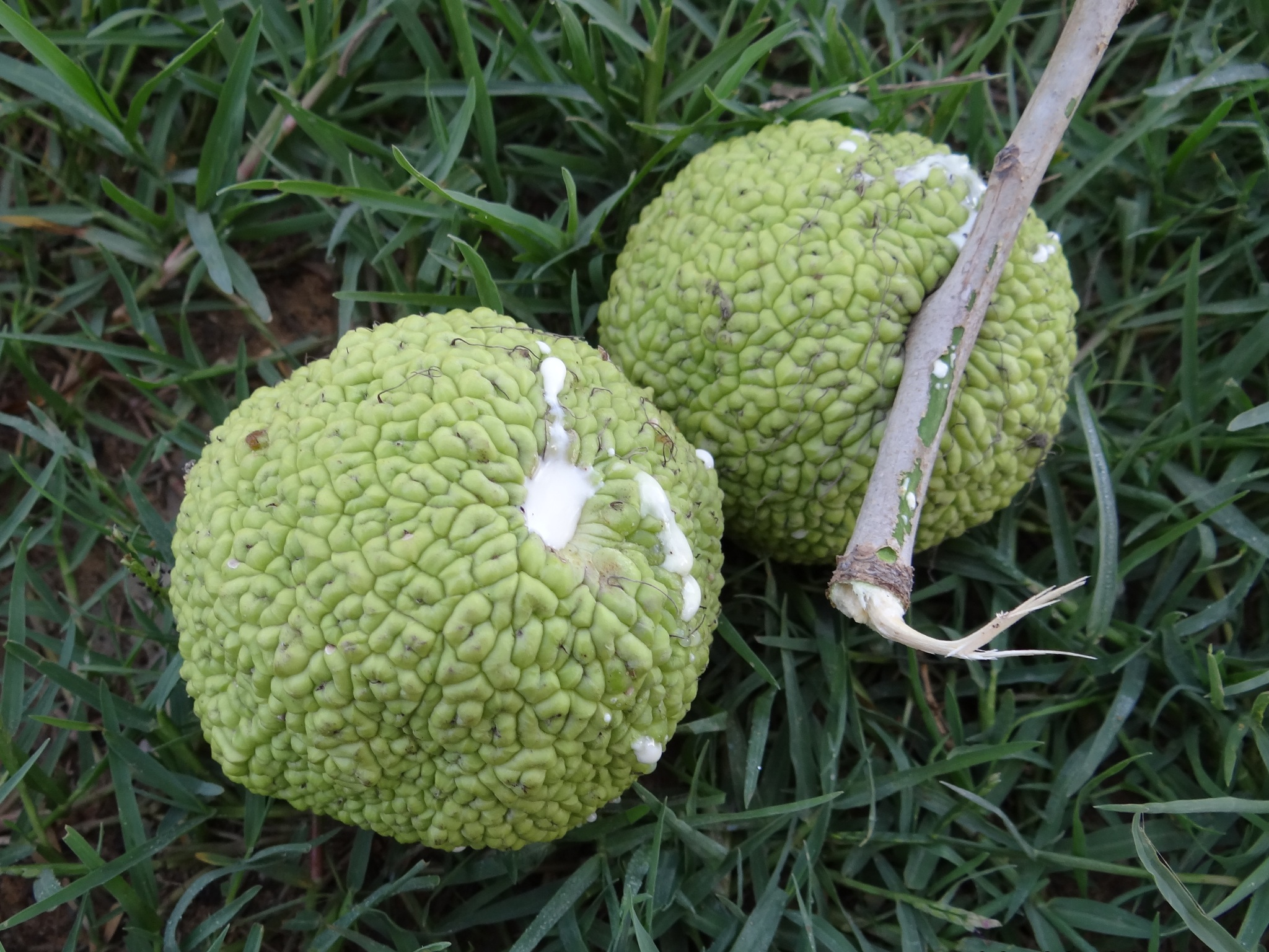 Osage orange, Annaba, Algeria